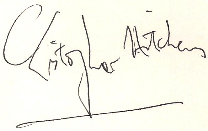 Hitchens signature as found in 'The Monarchy'.